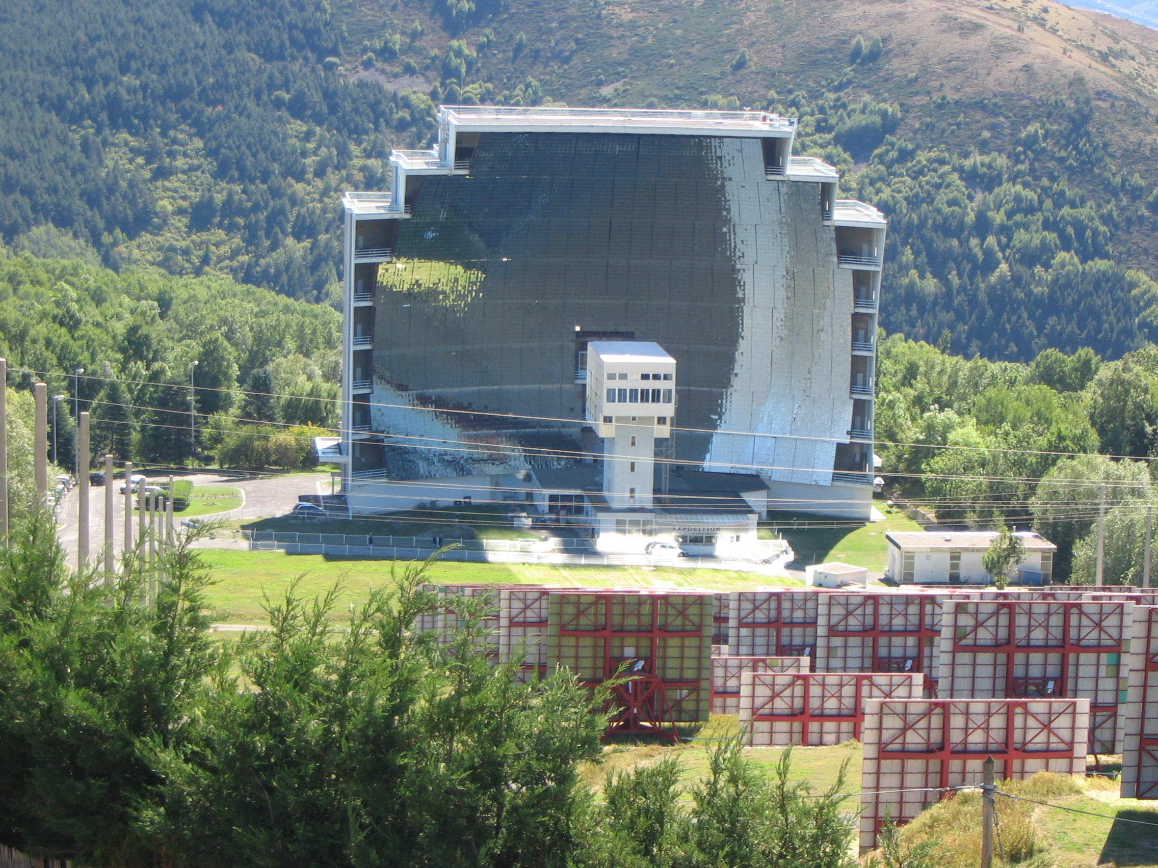 Centre du Four Solaire Félix Trombe, Odeillo, France.